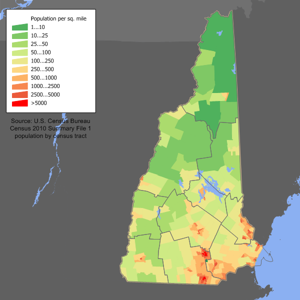 Population map of New Hampshire, updated with 2010 census data